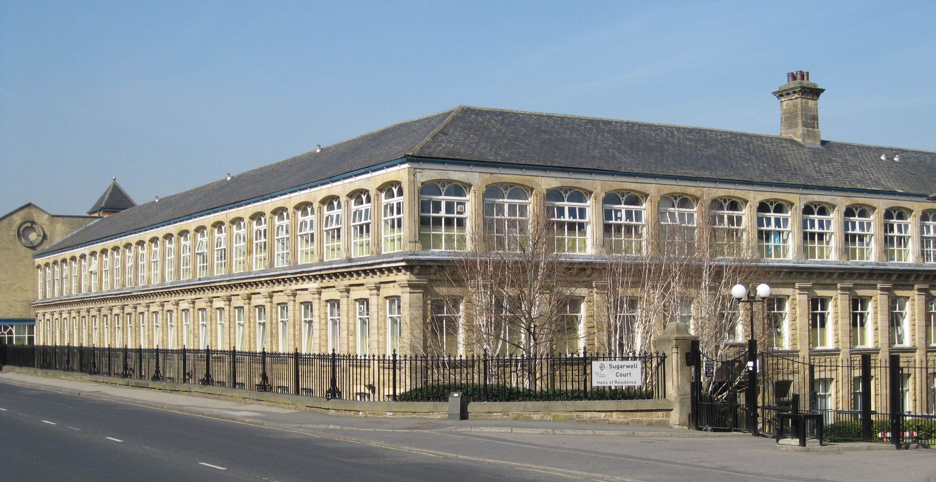 Sugarwell Court, Meanwood Road, Leeds LS7 2DJ. Student residences of Leeds Metropolitan University